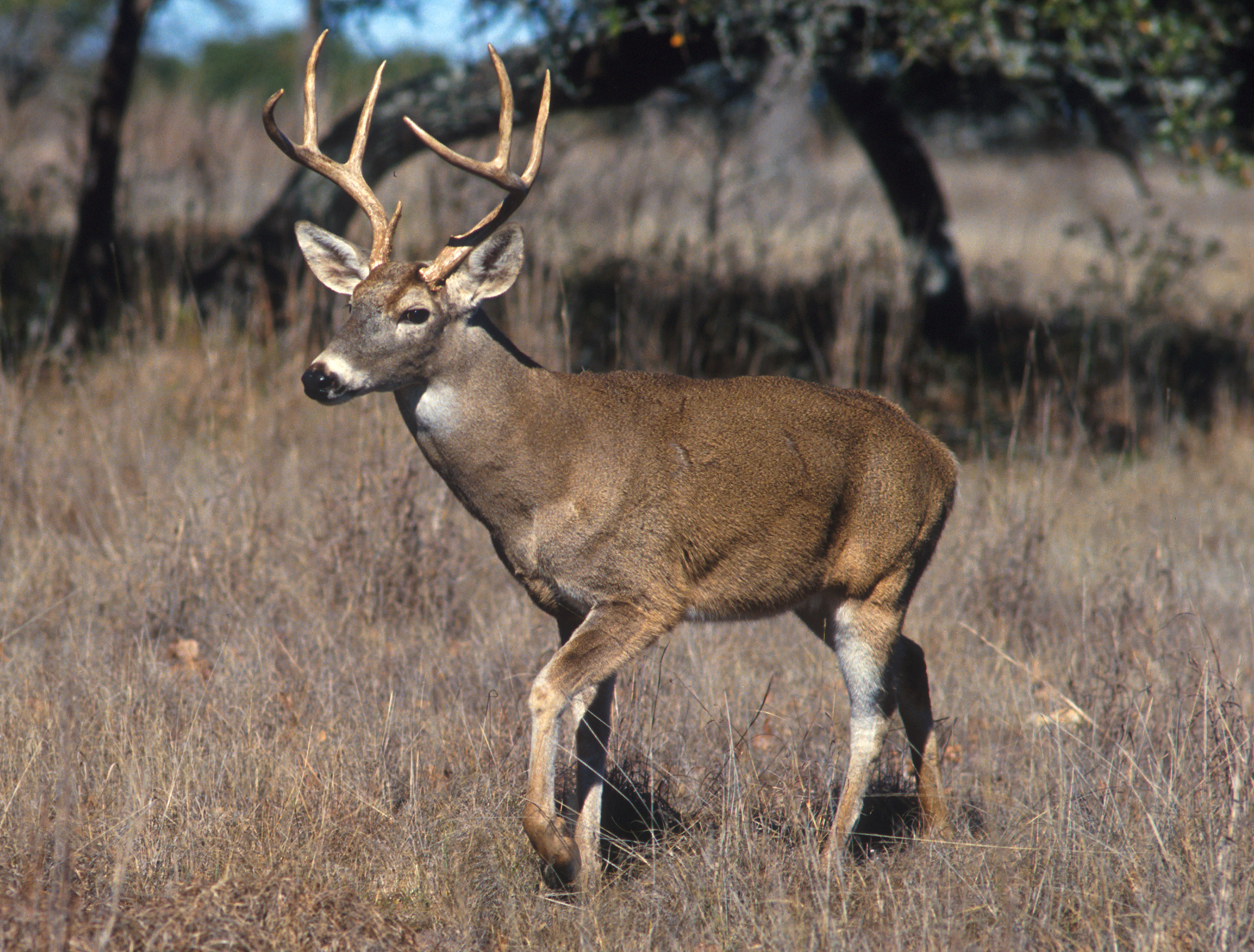 A white-tailed deer